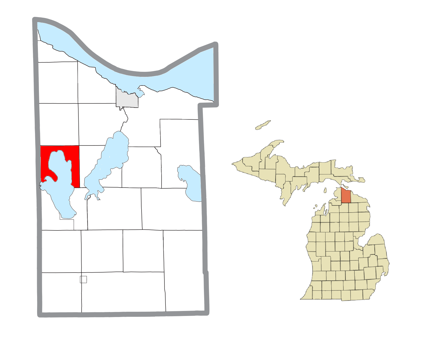 Burt Township, MI